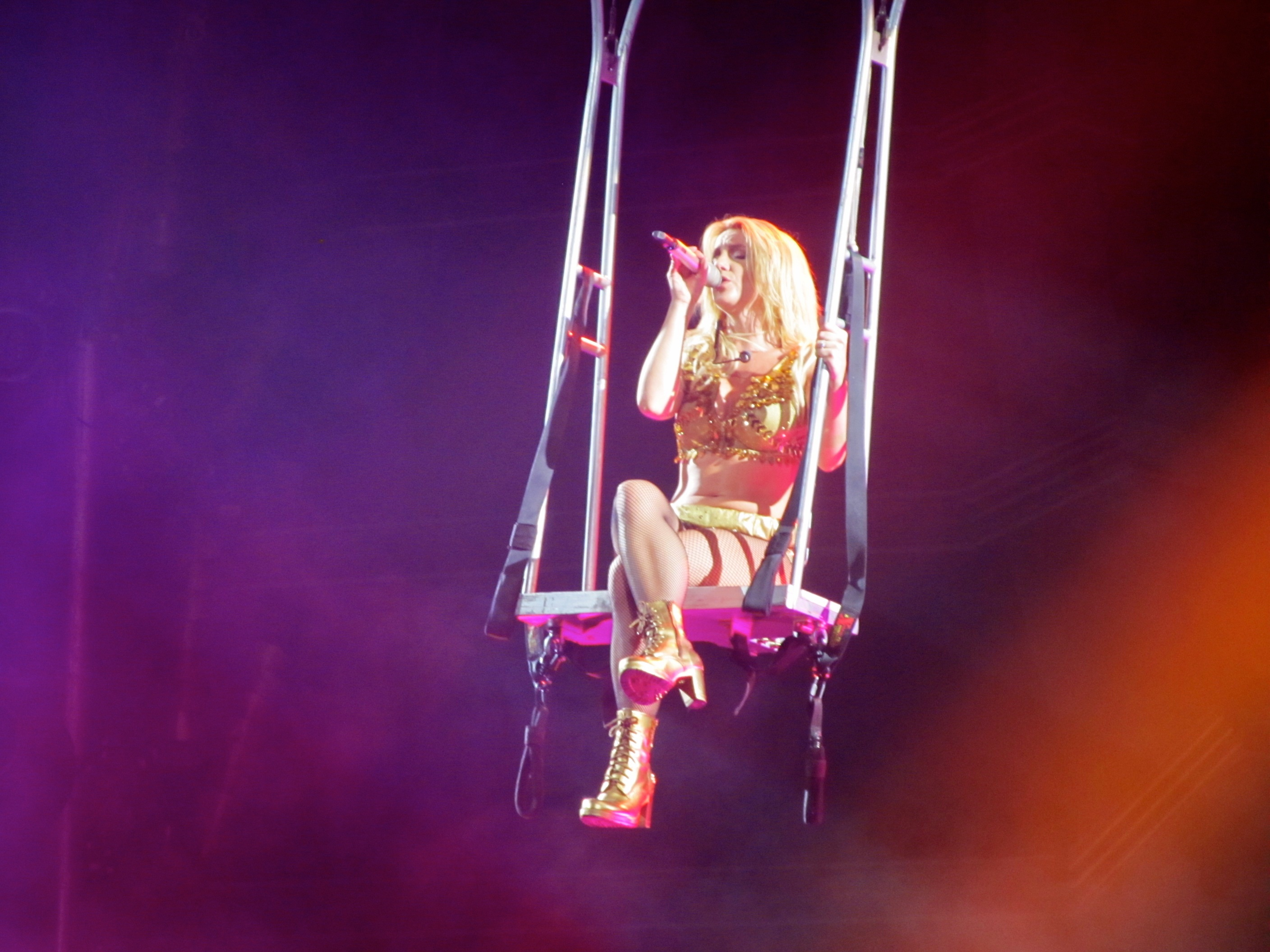 Spears performing "Don't Let Me Be the Last to Know" at the Femme Fatale Tour.